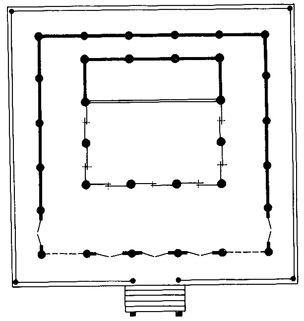 Layout of Burakuchi, Pref. Kochi